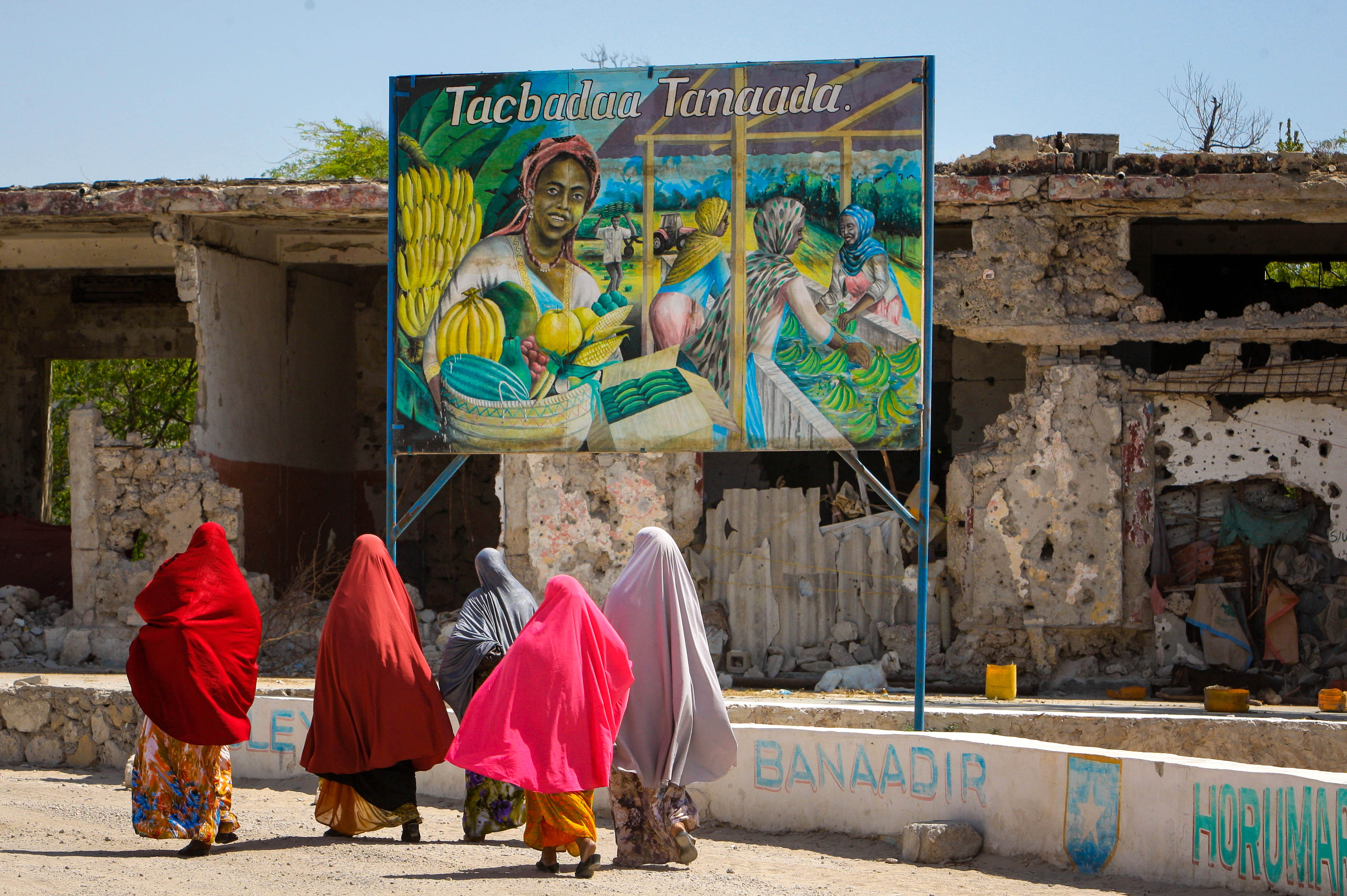 Somali woman walk past a billboard mural saying “Cultivate to prosper” that was displayed as part of a project to produce and display billboards around Mogadishu designed to mobilise and educate people through art to better understand and absorb the differences, benefits and realities between conflict and peace. During the occupation of the city by the Al-Qaeda-affiliated militant group Al Shabaab up until August 2011, many Somali artists were either forced to work in secret or stop practising their art all together for fear of retribution and punishment by the extremist group who were fighting to overthrow the internationally-recognised then transitional government and implement a strict and harsh interpretation of Islamic Sharia law. After 20 years of near-constant conflict, Mogadishu and large areas of Somalia are now enjoying the longest period of peace in years after sustained military operations by the Somali National Army (SNA) backed by the forces of the African Union Mission in Somalia (AMISOM) forced Al Shabaab to retreat from many areas of the country precipitating something of a renaissance for Somali artists and business, commerce, sports and civil liberties and freedoms flourishing once again. AU-UN IST PHOTO / STUART PRICE.